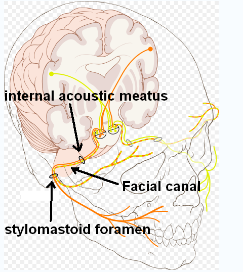 Cranial nerve VII 7, with facial canal highlighted